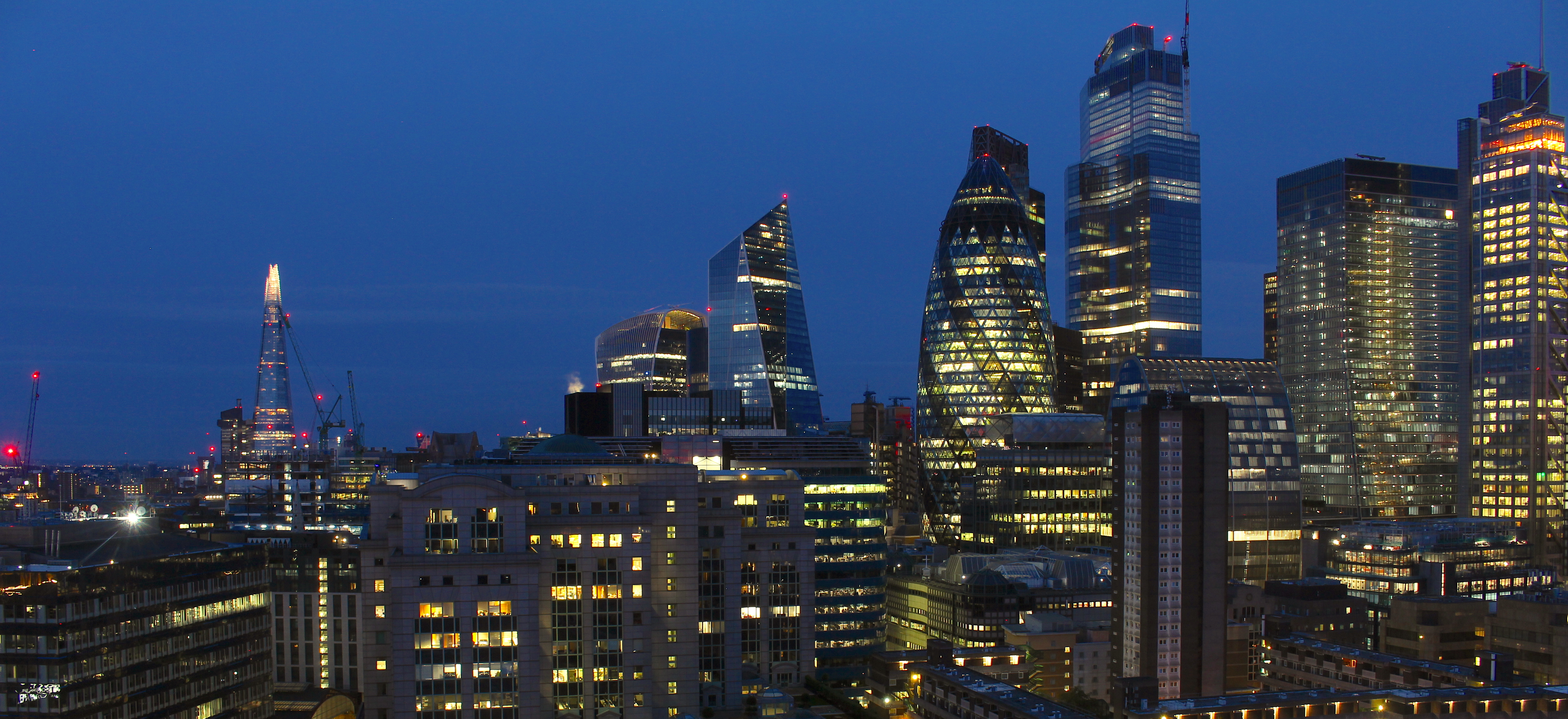 A view early in the morning, a few hours before dawn, of downtown London from Aldgate